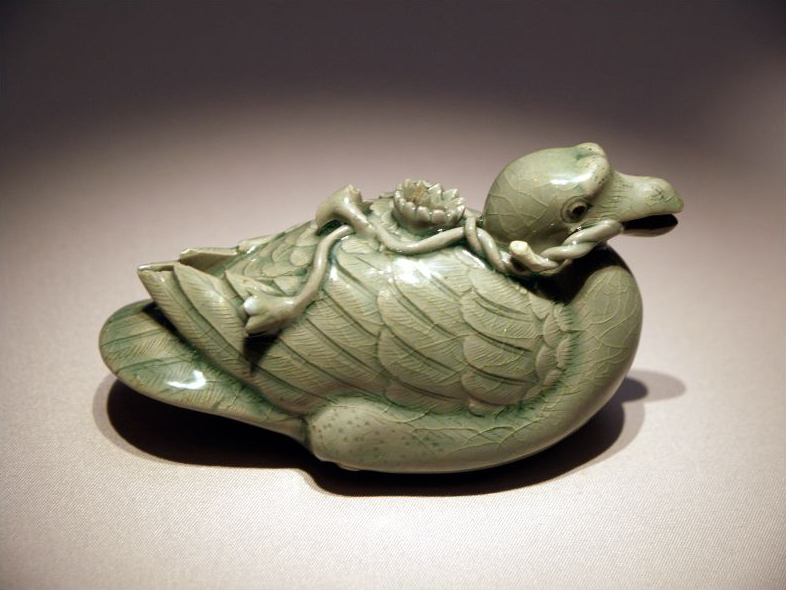 오리 모양의 연적, Korean pottery at National Museum of Korea, Seoul